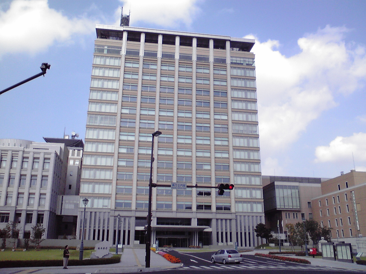 This is the building of Tochigi prefecture office.